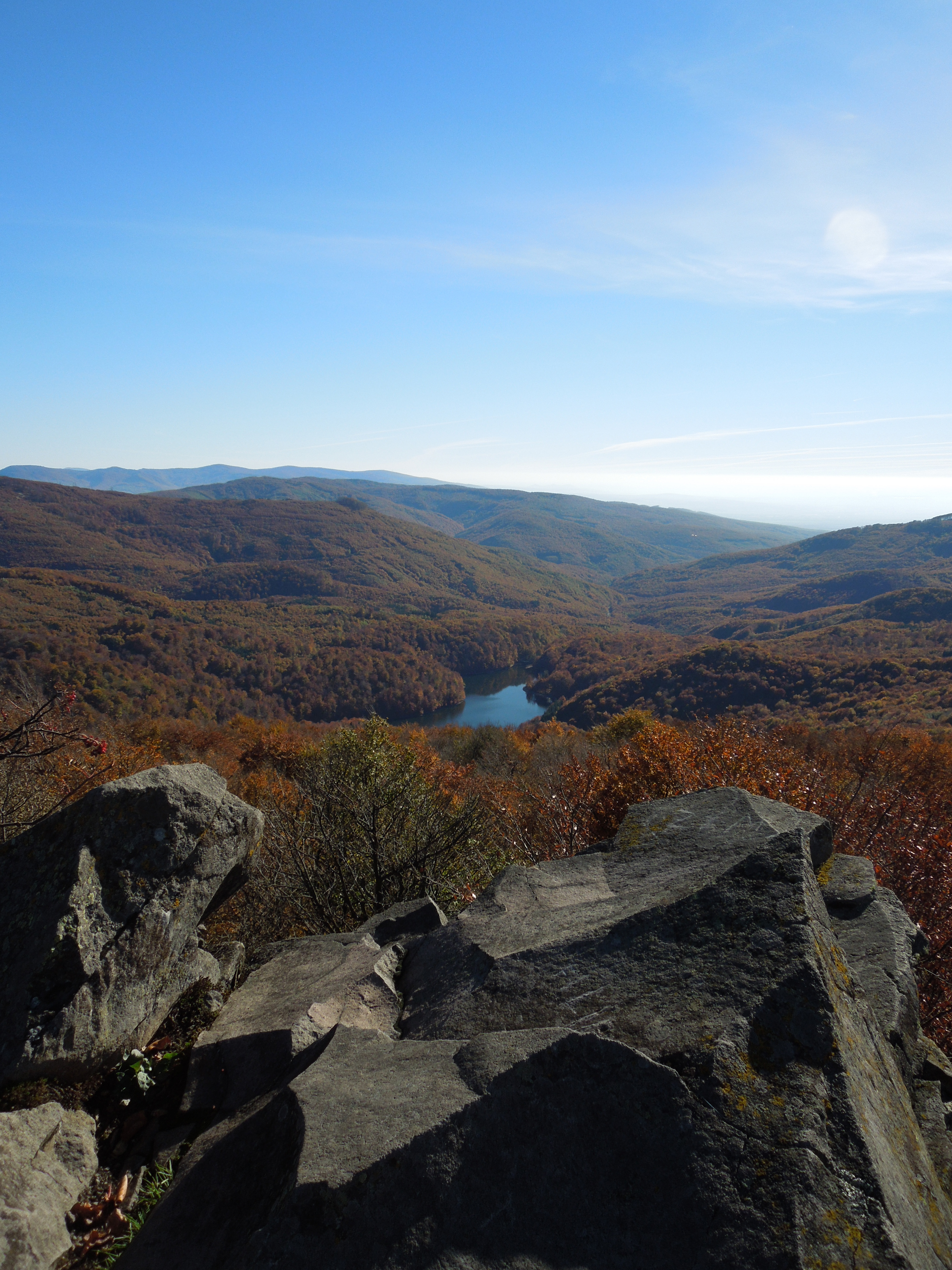 View of Sea Eye Lake from Sninský kameň in autumn This is a photography of Natura 2000 protected area with ID SKUEV0209